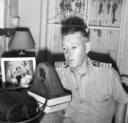 Captain R.R. Dowling, commanding Royal Australian Navy cruiser Hobart, giving one of his regular broadcasts to the ship's company while sailing from Tawitawi in the Philippines to the Brunei Bay area off Borneo.